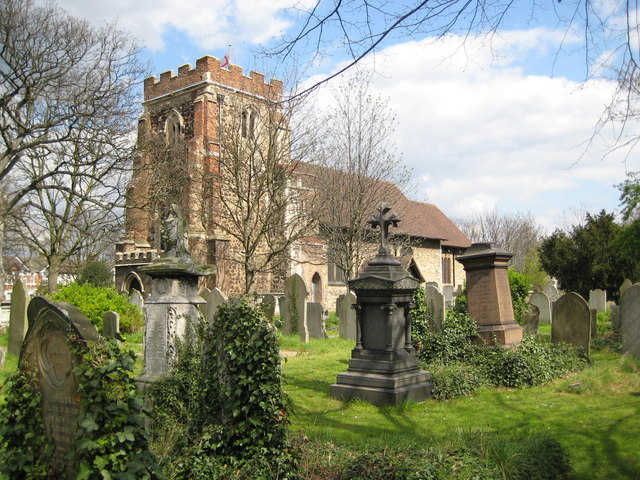 East Ham: Church of St Mary Magdalene, near to Beckton, Newham, Great Britain. There has reputedly been a church on this site since before the Norman Conquest of 1066 although the present church is thought to date from no earlier than the first half of the 12th century. The tower probably dates from the early 13th century, but has been much restored. The church suffered from bomb damage in 1941, including the loss of all of its stained glass windows. The churchyard covers an area of about 9.5 acres but has recently been closed for burials. Since 1977 most of the churchyard has been left as a nature reserve, managed by the London Borough of Newham as East Ham Nature Reserve, although this area around the church is maintained for worshippers and weddings. The flag of St George is fluttering from the flagstaff on the tower.